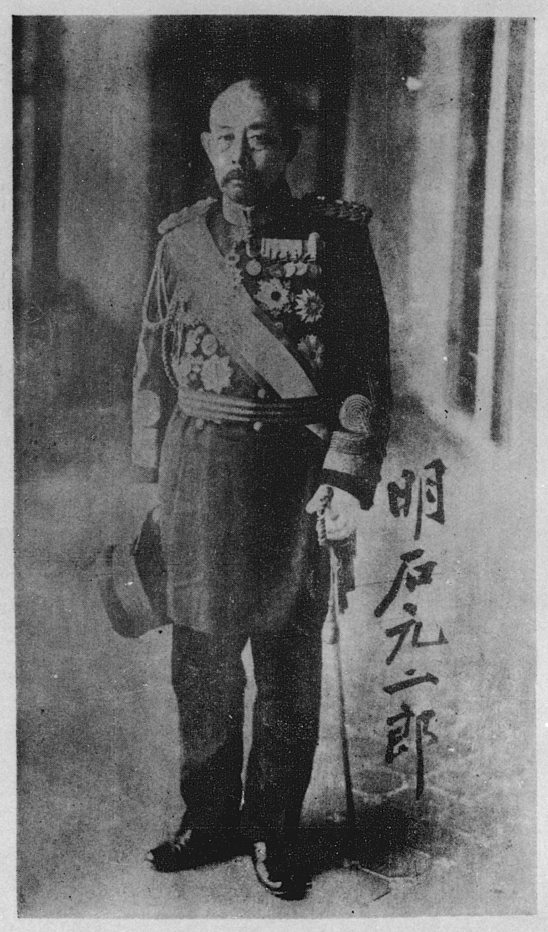 Portrait of Akashi Motojiro (明石元二郎, 1864 – 1919)